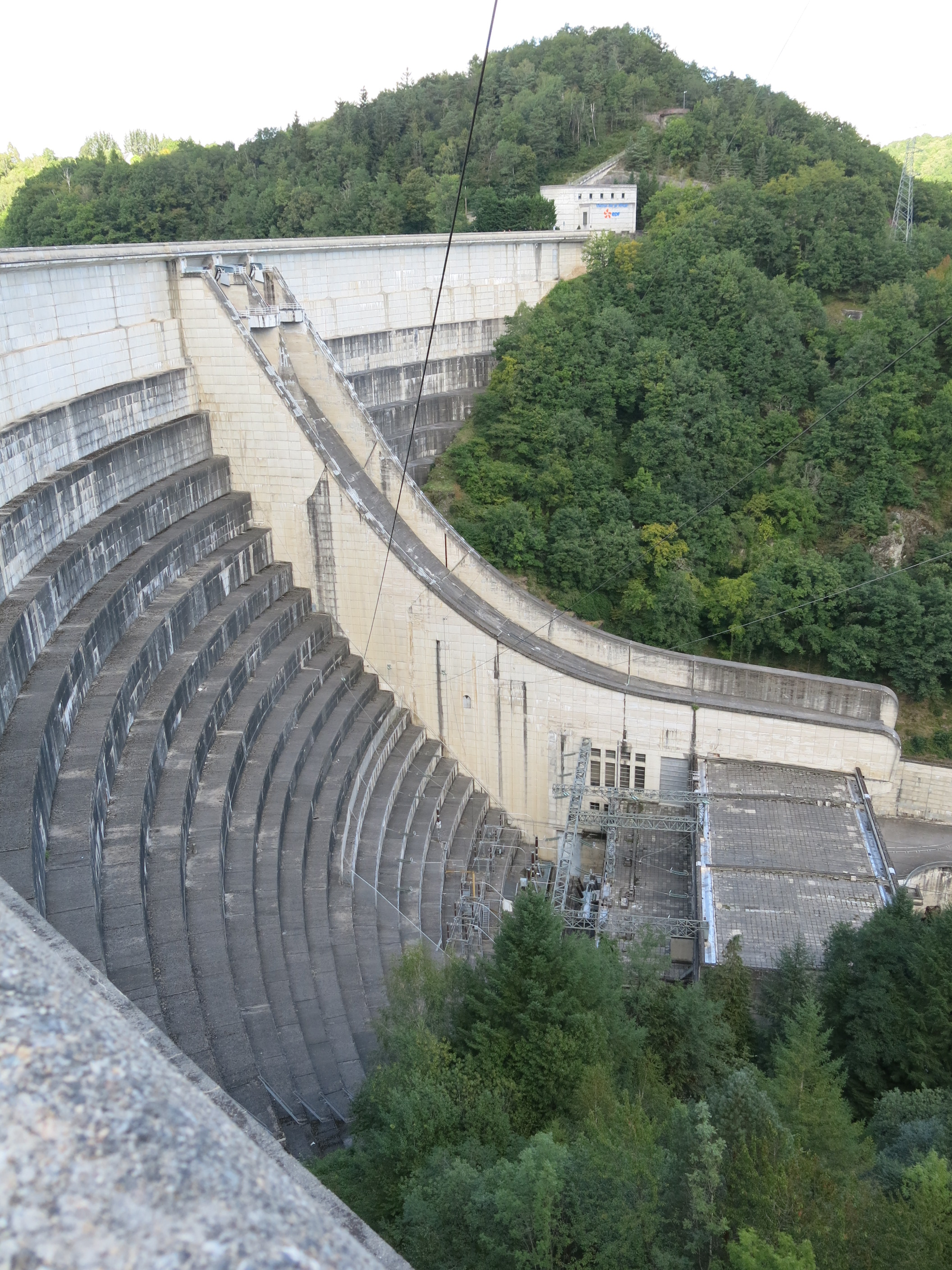 Look of the dam of Bort-les-Orgues downstream (Corrèze, France).